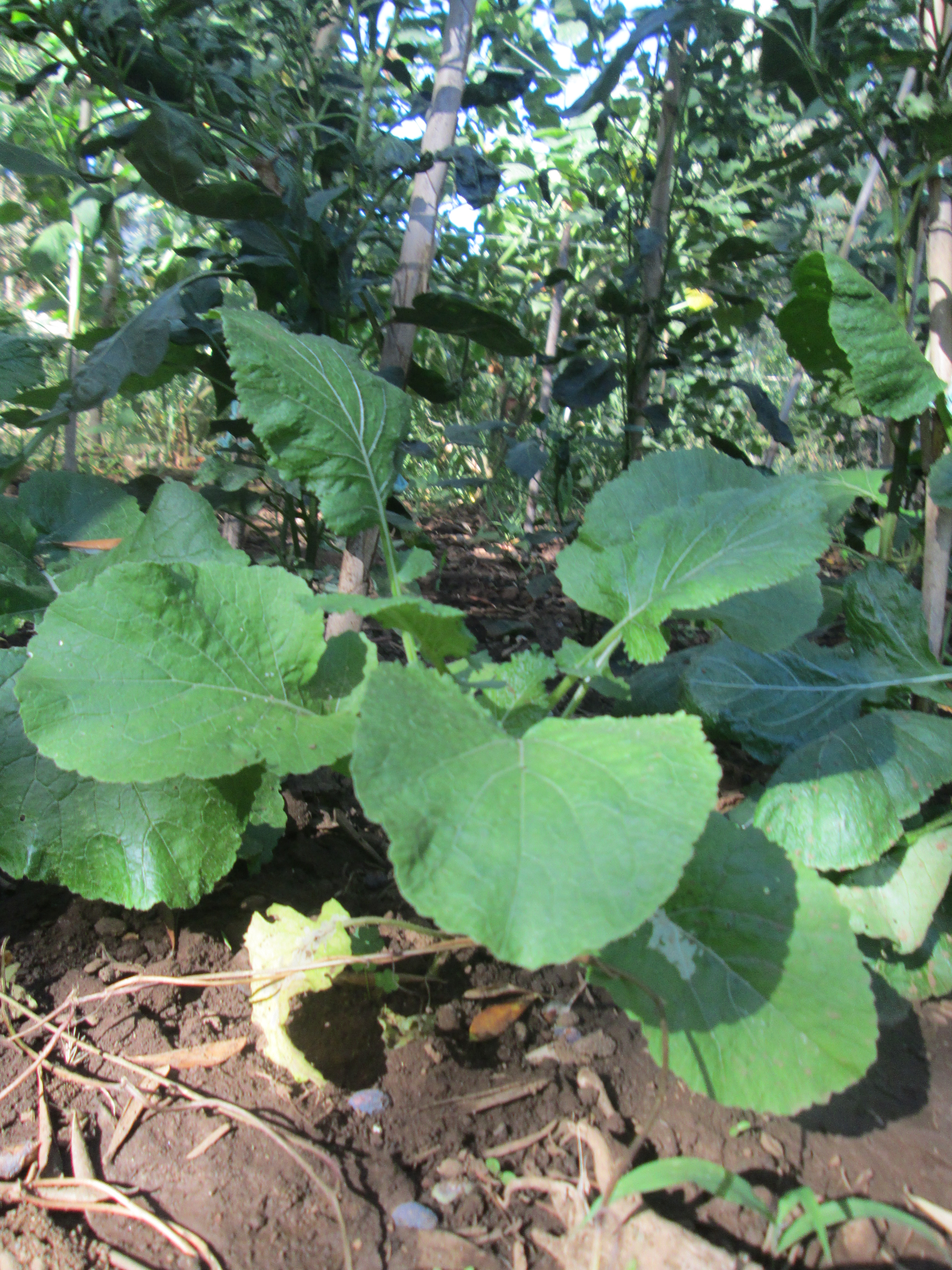 Young plant of brassica oleracea